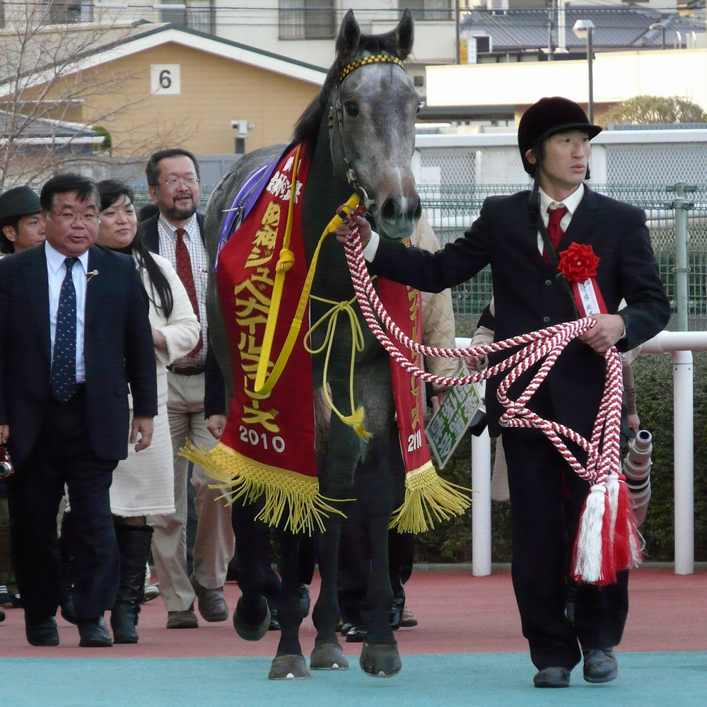 Reve-d'Essor20101212